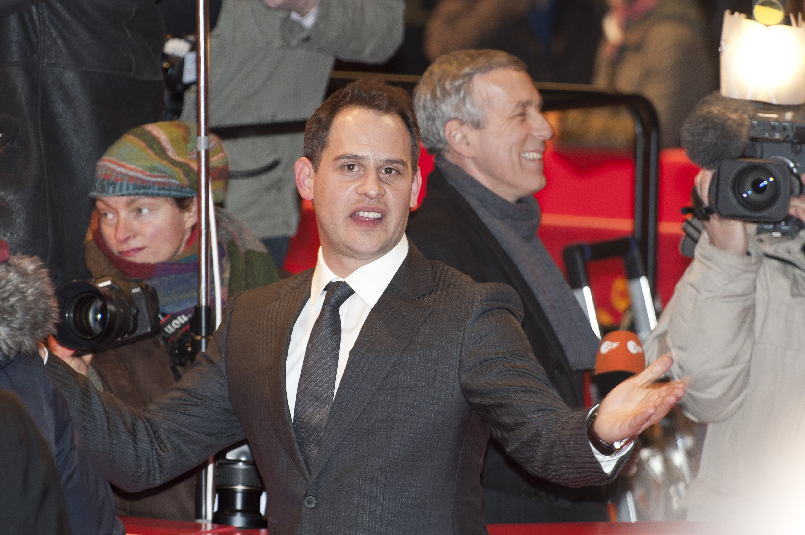 Moritz Bleibtreu, German actor, premiere of the film "Jud Süß - Film ohne Gewissen" at the Berlinale Palast